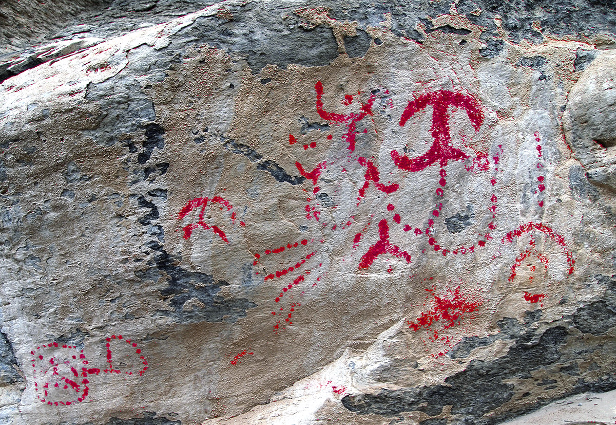 post-palaeolithic rock paintings in Italian western Alps (Piedmont): antropomorphic figures and dottings